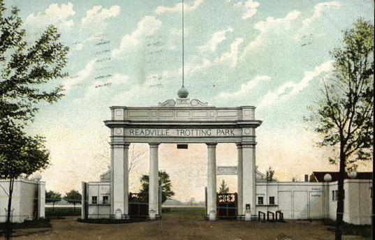 Postcard Image